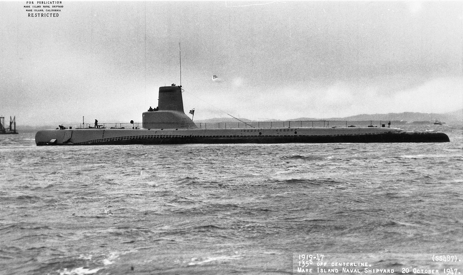 Broadside view of Remora (SS-487) off Mare Island on 20 October 1947.